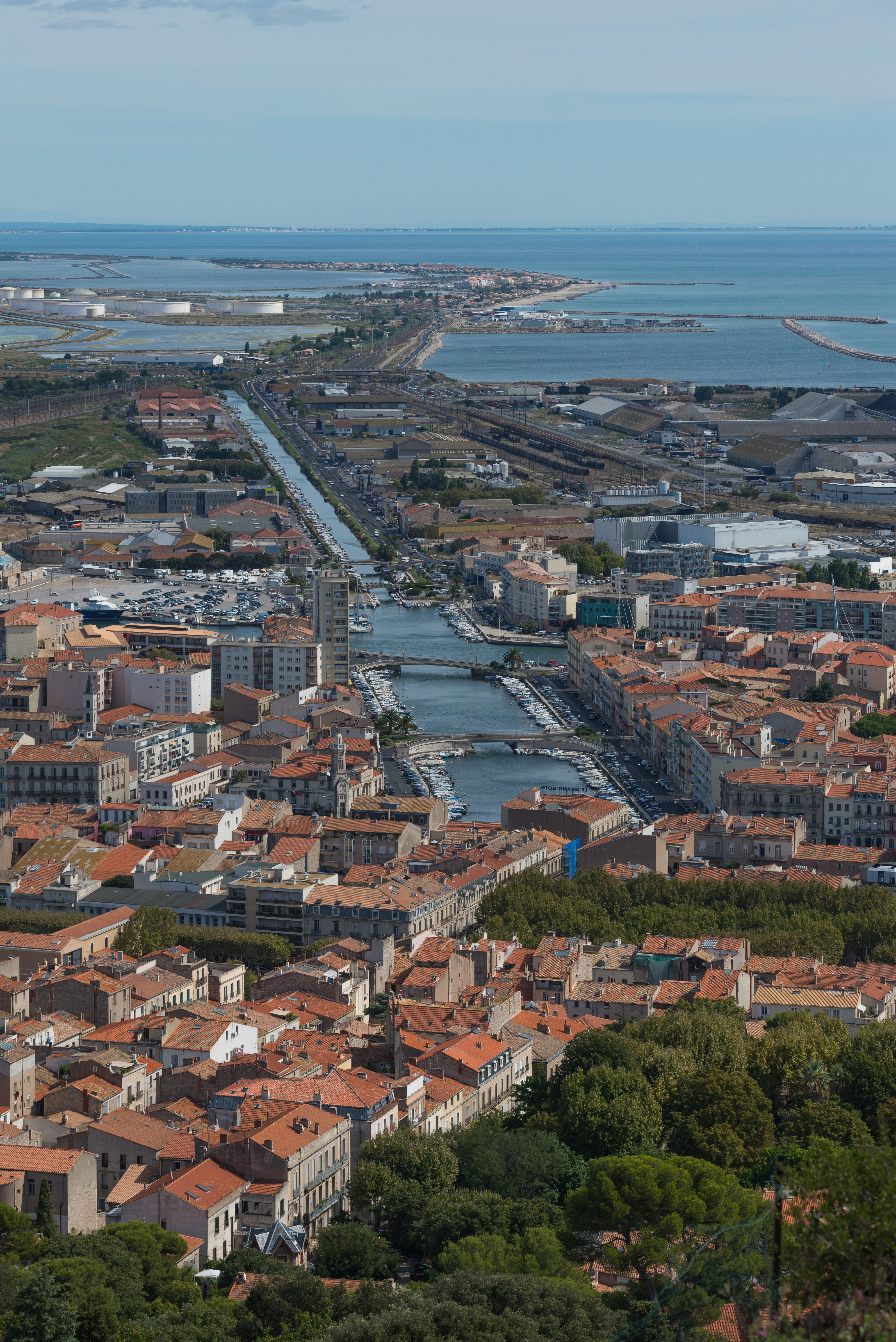 Canal de la Peyrade, Sète, Hérault, France.